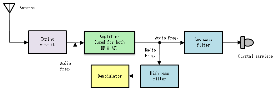 A block diagram of a reflectional radio receiver (reflex radio) in English.